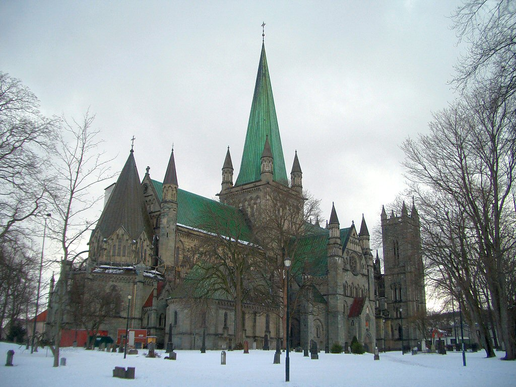 Nidaros Cahtedral, Trondheim, Norway. View from the east, March 2006.